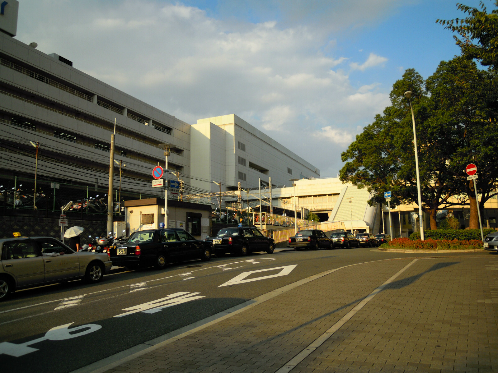 Sumiyosh station